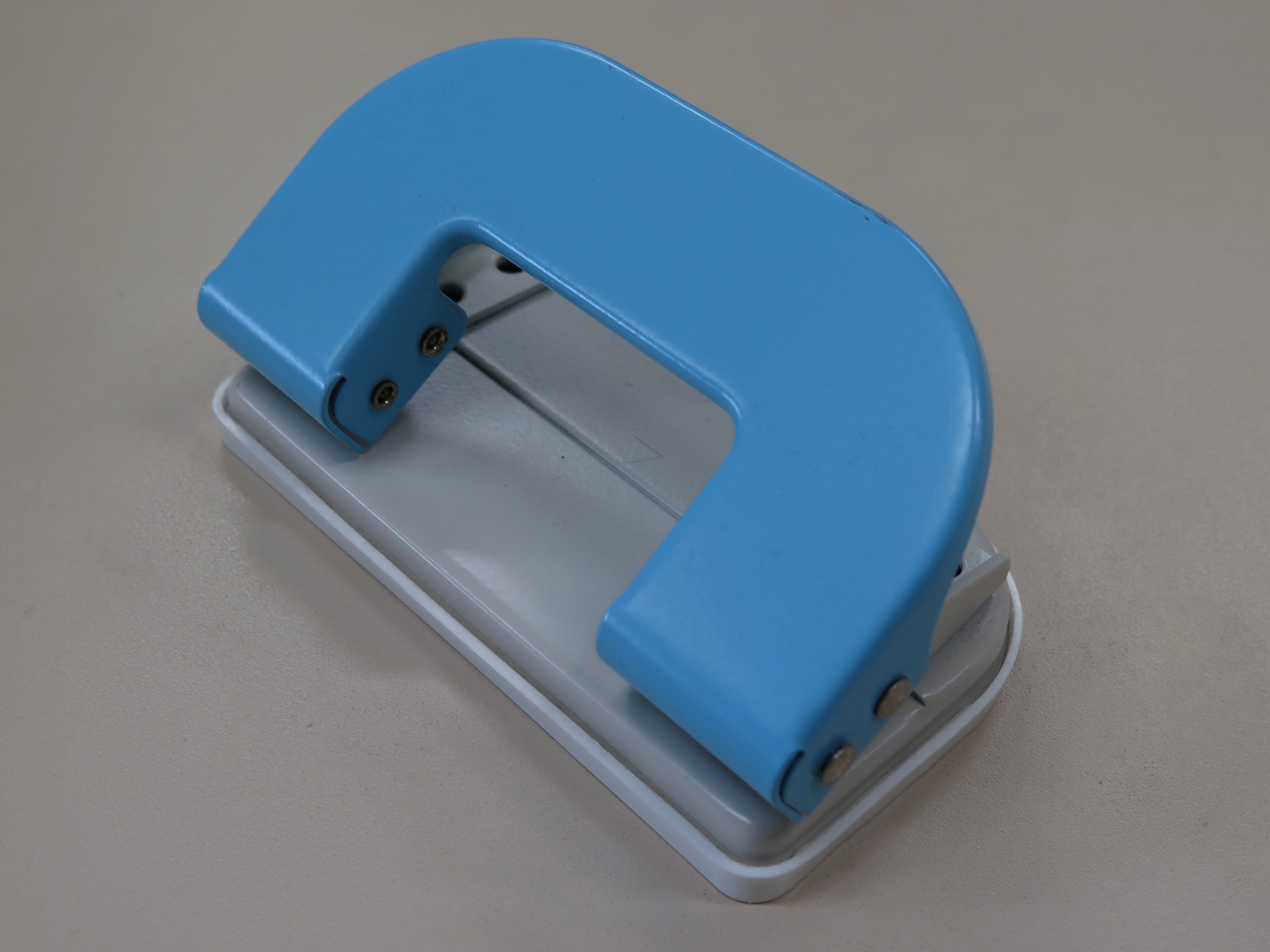 A 2-hole punch. The top is light blue in color.